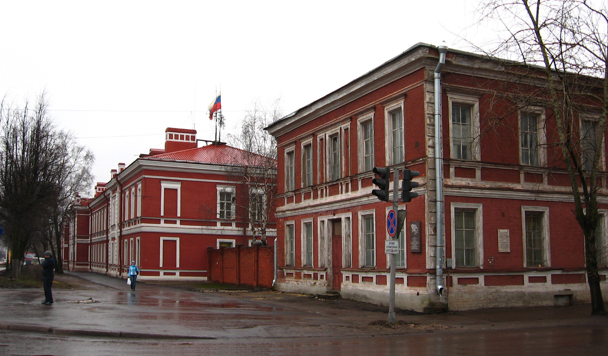 Red quarters in Gatchina